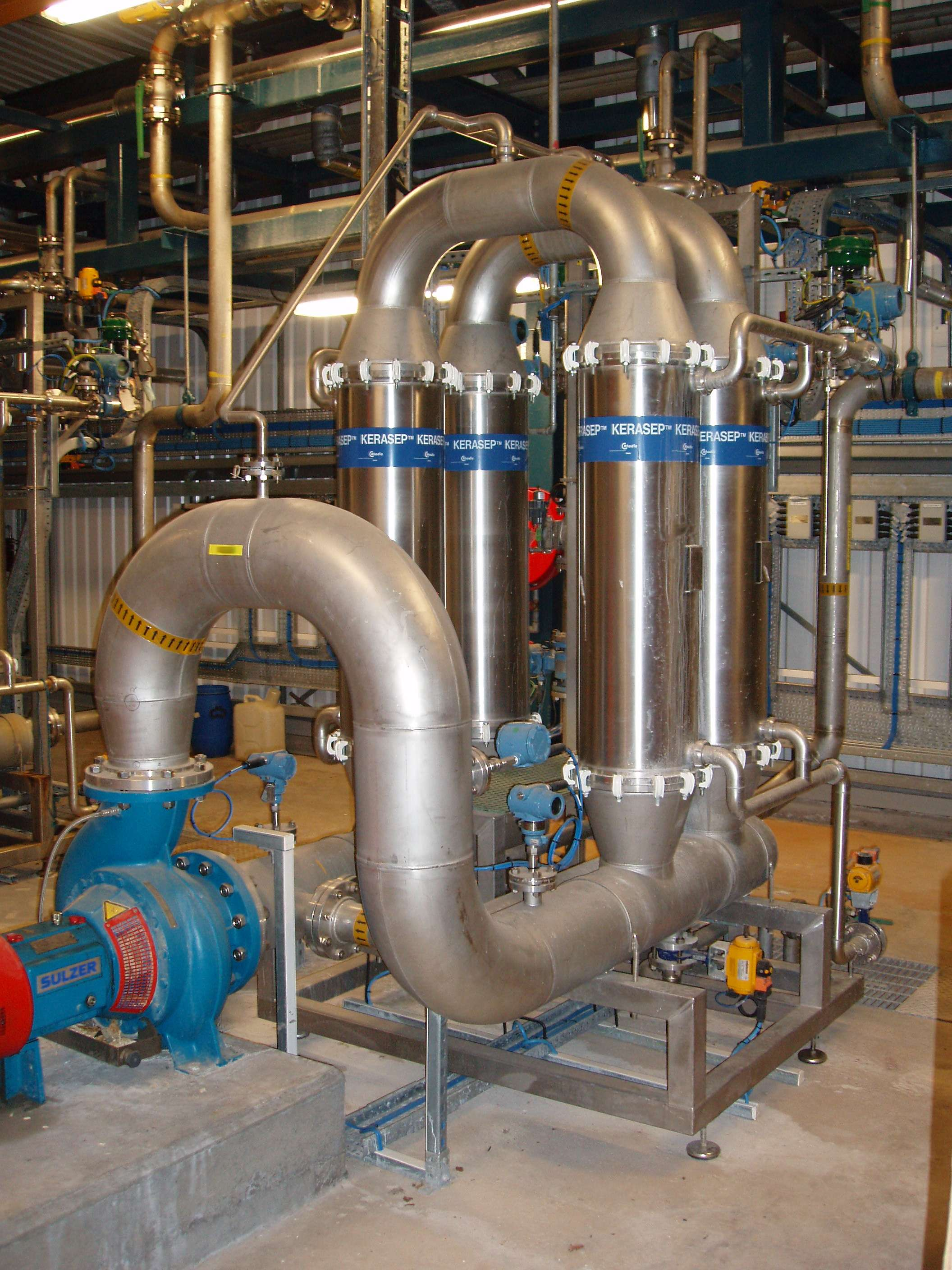 Industrial unit for cross-flow filtration. Bottom left (blue) is the centrifugal pump which provides flow and pressure for filtration. Ceramic membranes are housed in the four vertical sections of large diameter pipe. Permeate manifolds (small diameter) exit the filter housings near to the rows of white clamps.